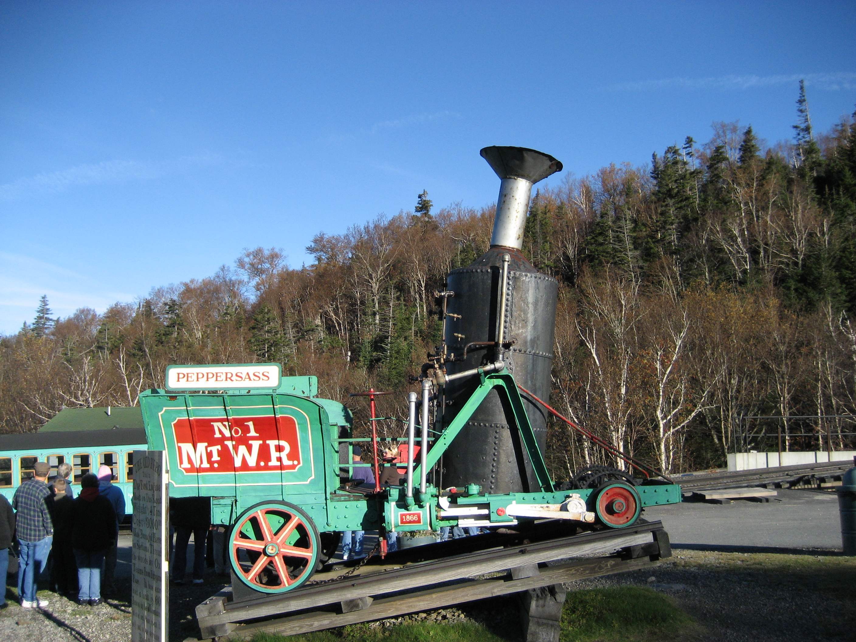 Locomotive "Peppersass" of the Mount Washington Cog Railway Author: Dan Crow Date: October 10th. 2006